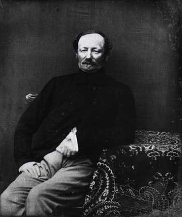 Jørgen Frederik Johannes Grevenkop-Castenskiold (1804-1874), Danish noble, estate owner, officer and politician, MP